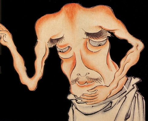 Dōnotsura (胴面) from the Hyakki Yagyō Emaki (百鬼夜行絵巻)